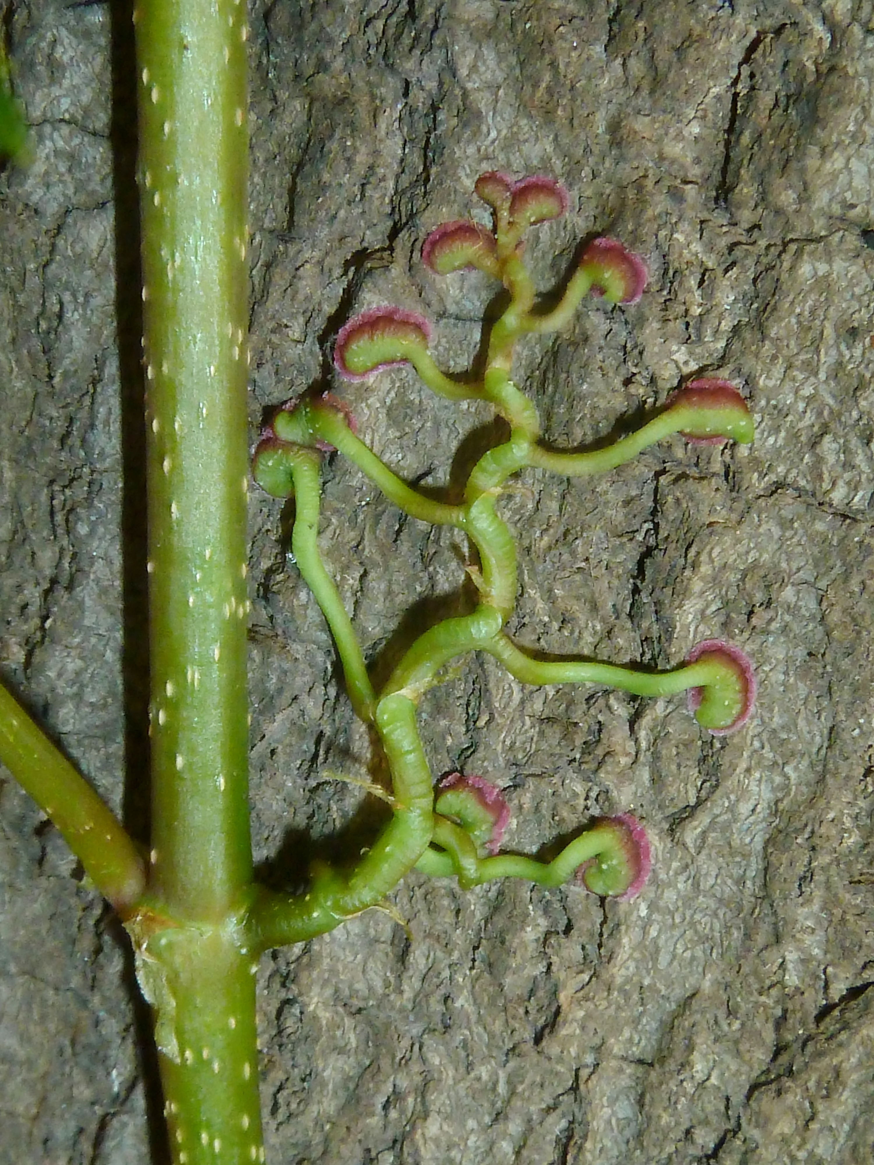 Climbing roots of Virginia creeper in the Manie van der Schijff Botanical Garden, Pretoria